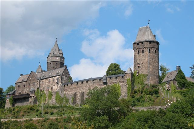 The german castle Altena from the 12th century